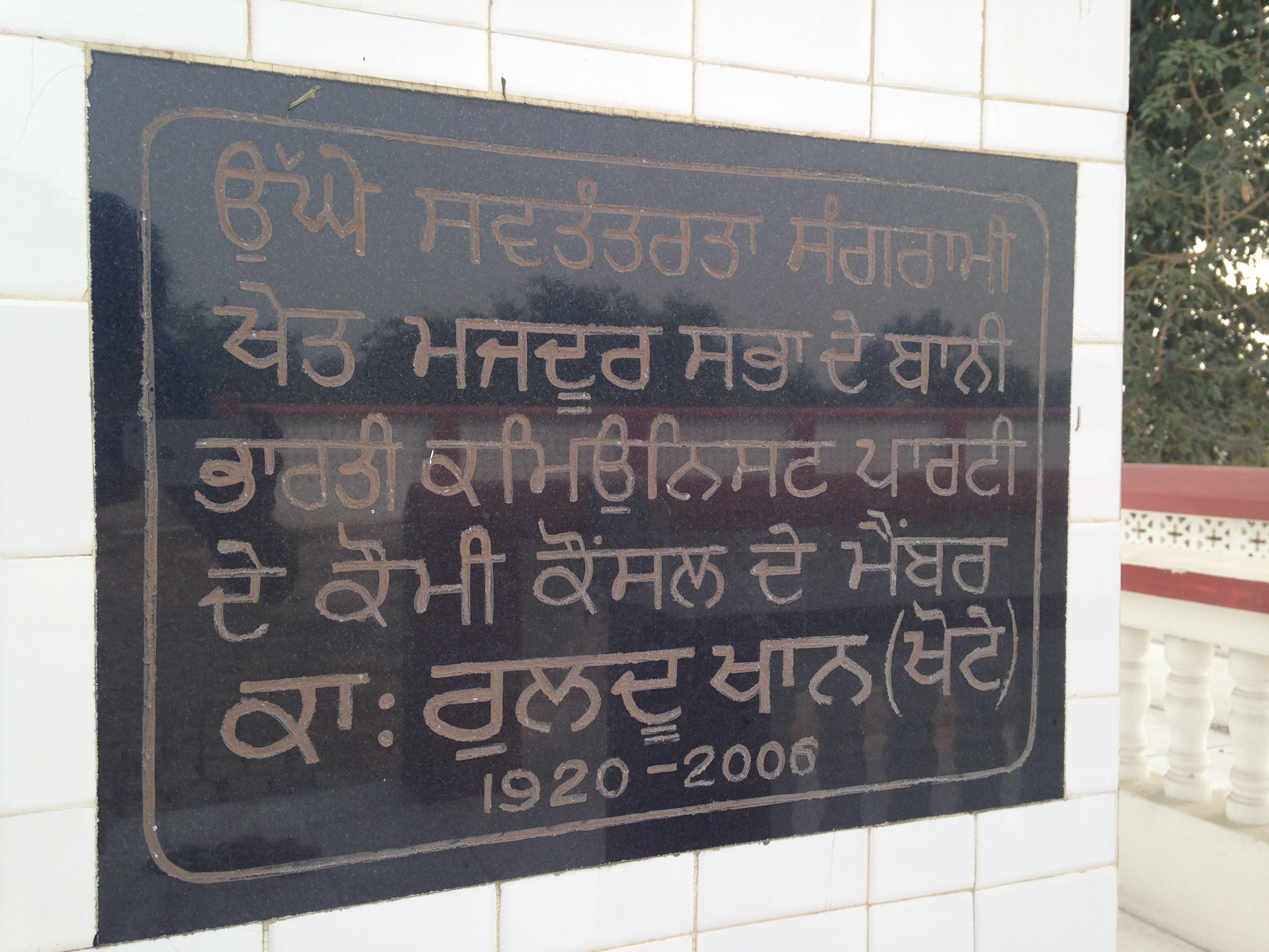 Comrade Ruldu Khan Memorial